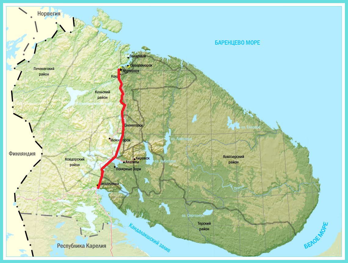 Kola Peninsula (by GSE) on map of Murmansk region.